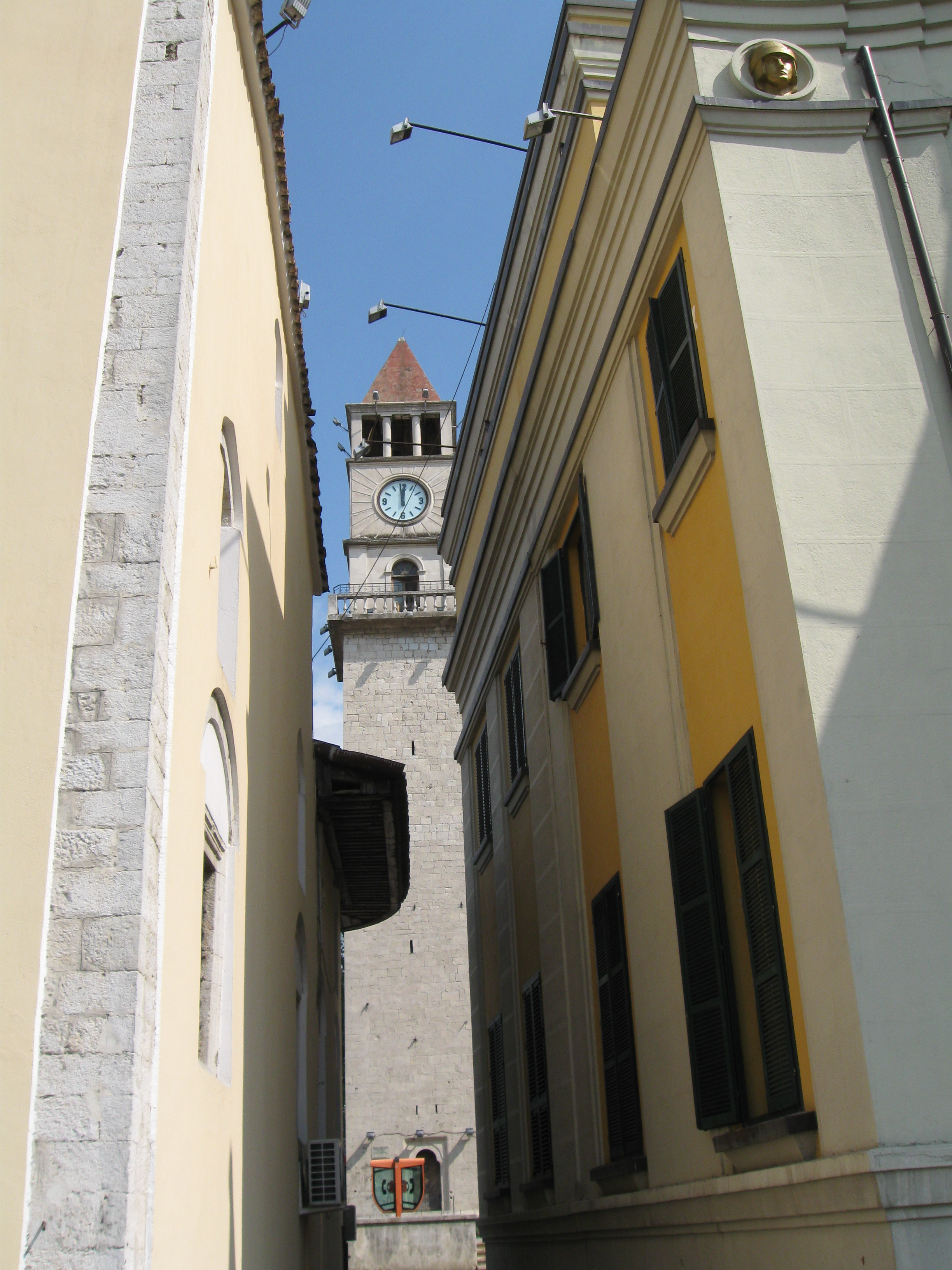 Clock Tower of Tirana built during 1822-1830